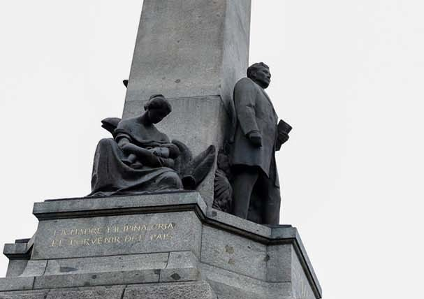 Executive Secretary Salvador Medialdea leads the wreath-laying ceremony during the commemoration of the 122nd Anniversary of the Proclamation of Philippine Independence at the Rizal Park in Ermita, Manila on June 12, 2020.